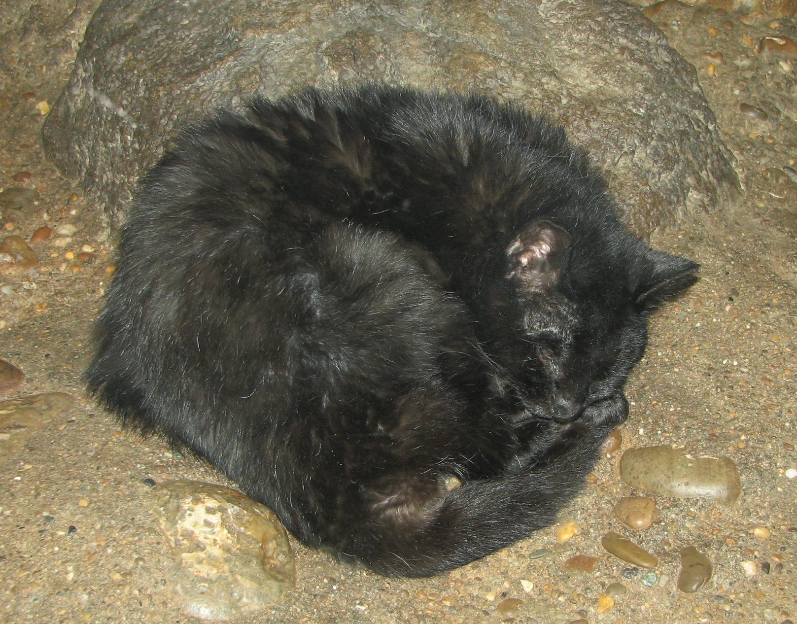 Pampas Cat